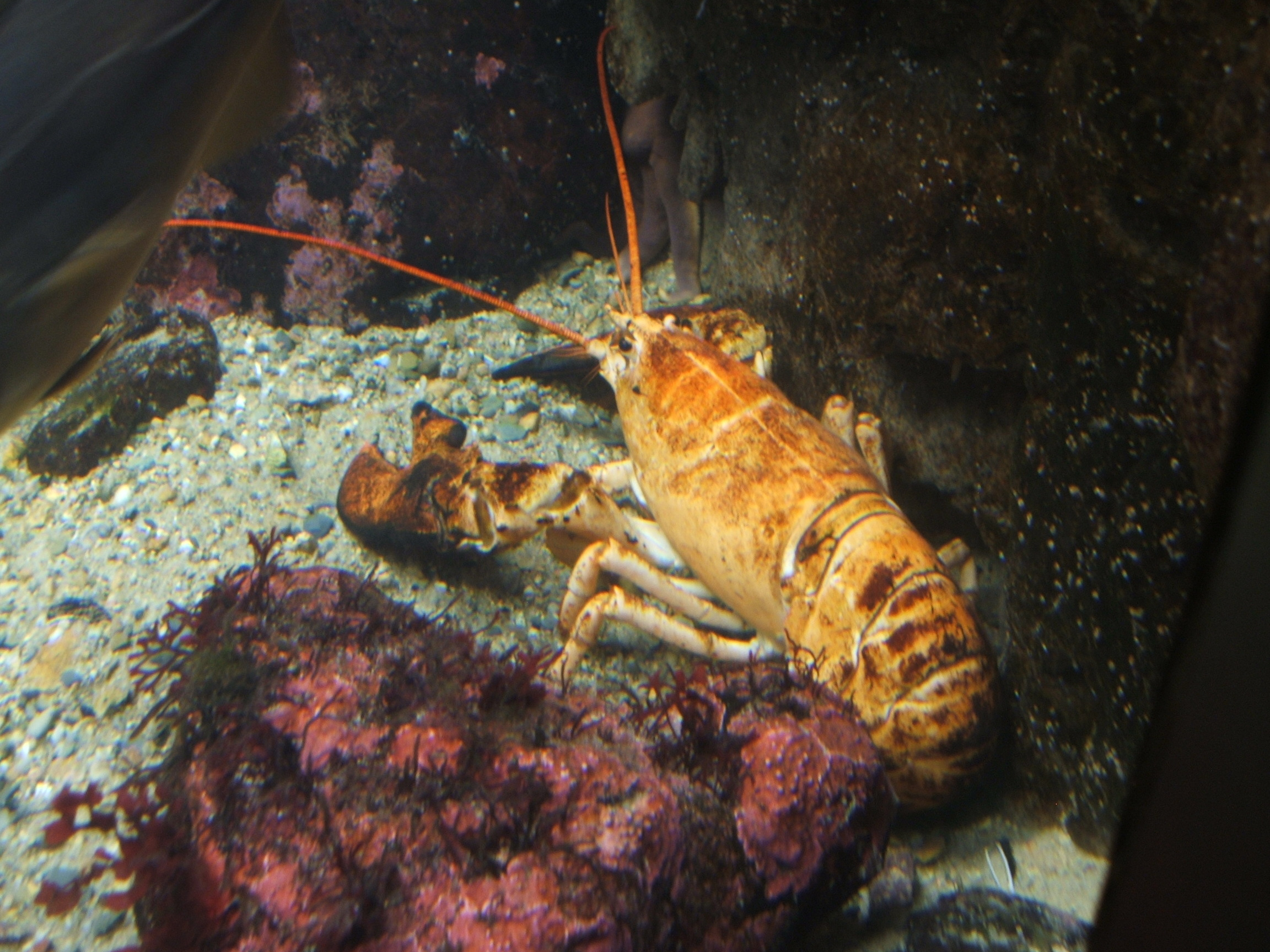 Yellow American lobster (Homarus americanus). Taken at the New England Aquarium (Boston, MA, December 2006. Copyright © 2006 Steven G. Johnson and donated to Wikipedia under GFDL and CC-by-SA.